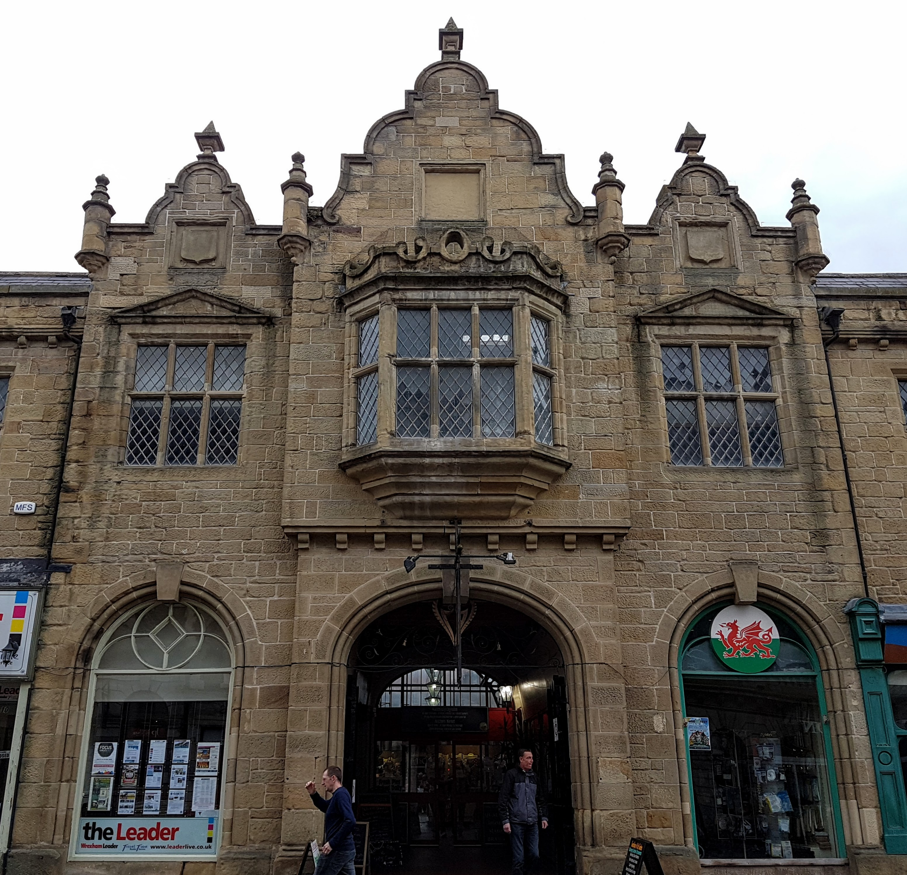 Wrexham Butchers Market 2017